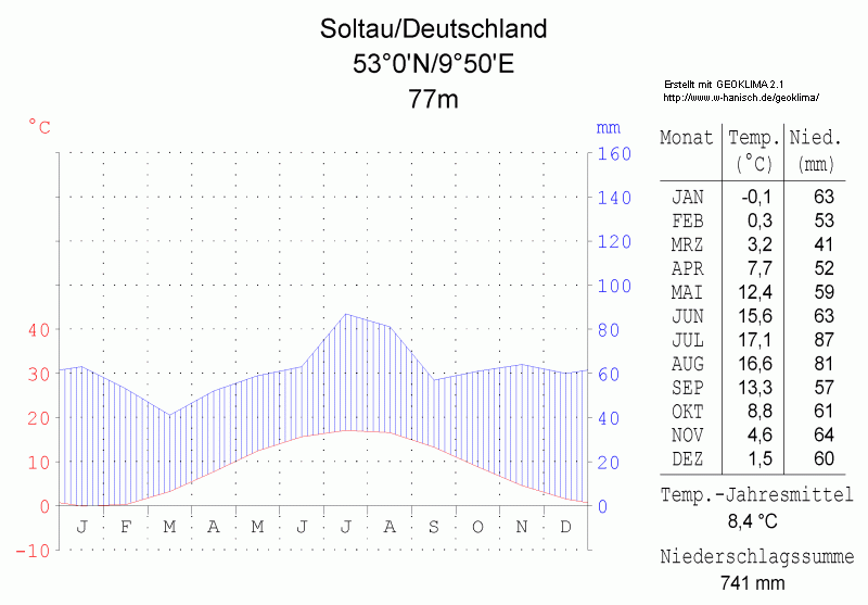 climate chart in the format by Walther and Lieth, metric, °Celsisus and millimeters, made with Geoklima 2.1